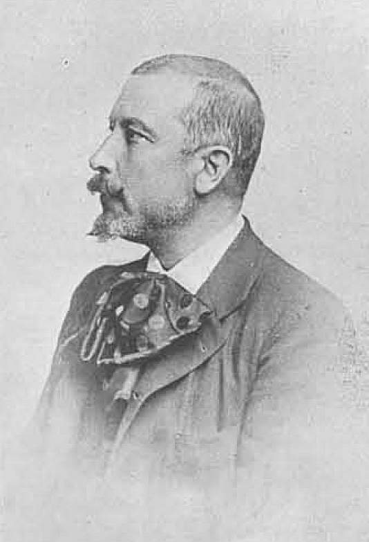 José Malhoa in Revista Moderna (1889)